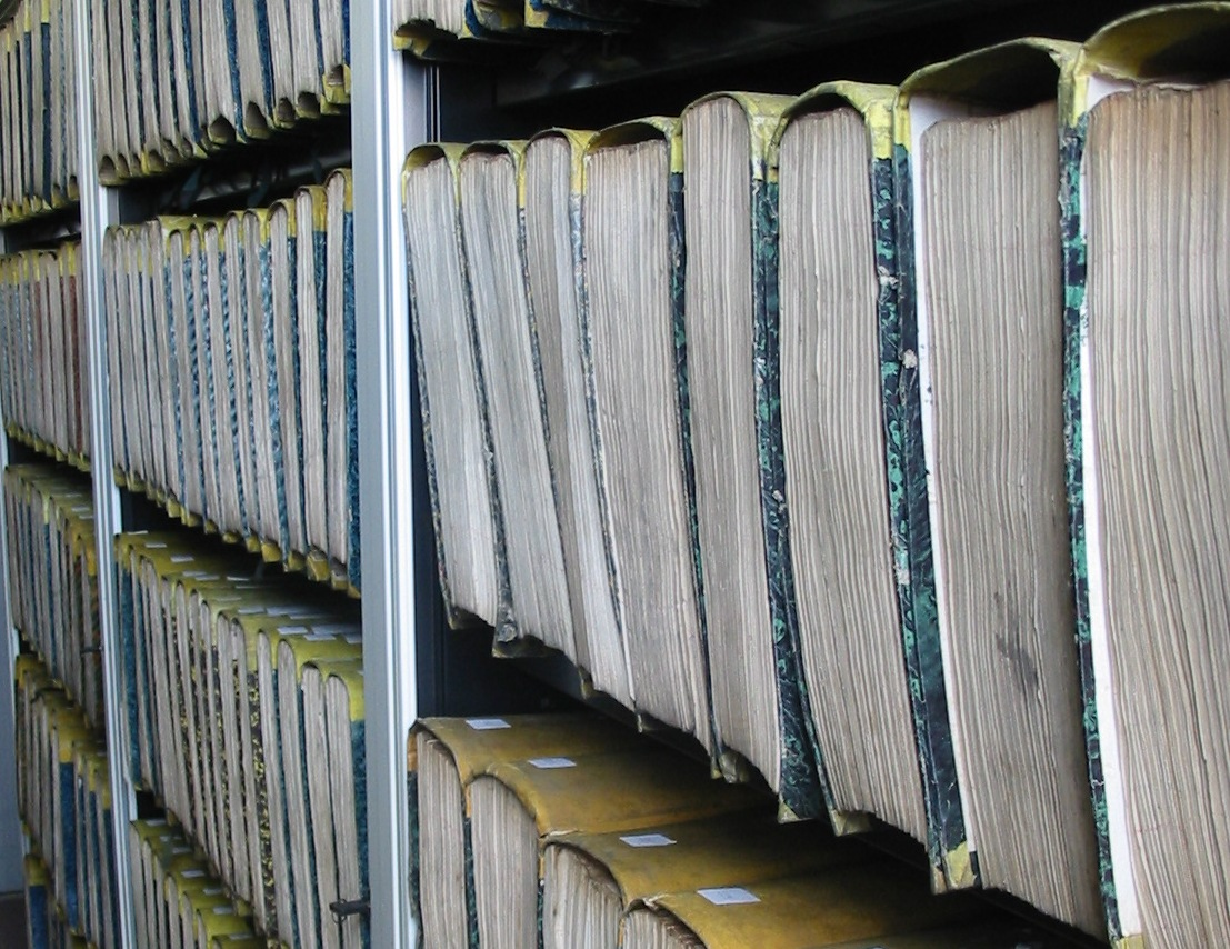 archive file register